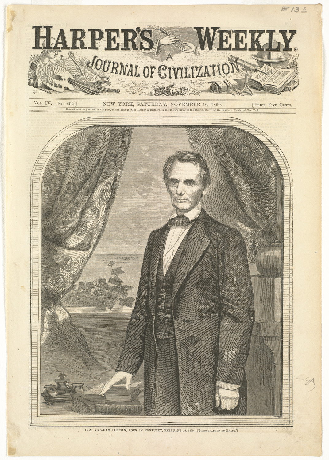 File name: 10_09_000167 Title: Hon. Abraham Lincoln, born in Kentucky, February 12, 1809 Creator/Contributor: Homer, Winslow, 1836-1910 (artist) Date issued: 1860-11-10 Physical description: 1 print : wood engraving Genre: Wood engravings; Periodical illustrations Notes: Published in: Harper's Weekly, Volume IV, No.202, 10 November 1860; Photographed by Brady.; Signed lower right: H. Collection: Winslow Homer Collection Location: Boston Public Library, Print Department Rights: No known restrictions Flickr data on 2011-08-11: Camera: Sinar AG Sinarback 54 FW, Sinar m Tags: Winslow Homer User: Boston Public Library BPL